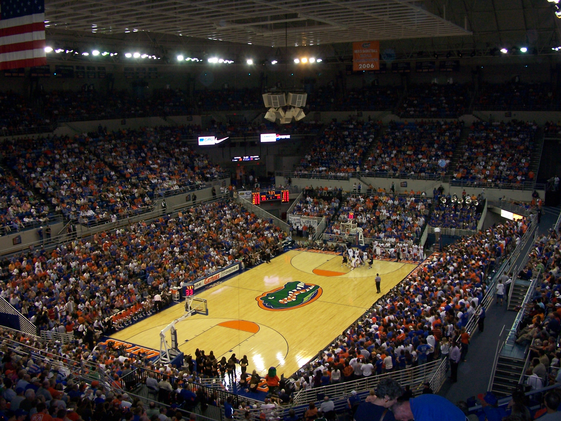 This picture was taken during the Florida-Samford basketball game on November 10, 2006 by Randall Stewart.